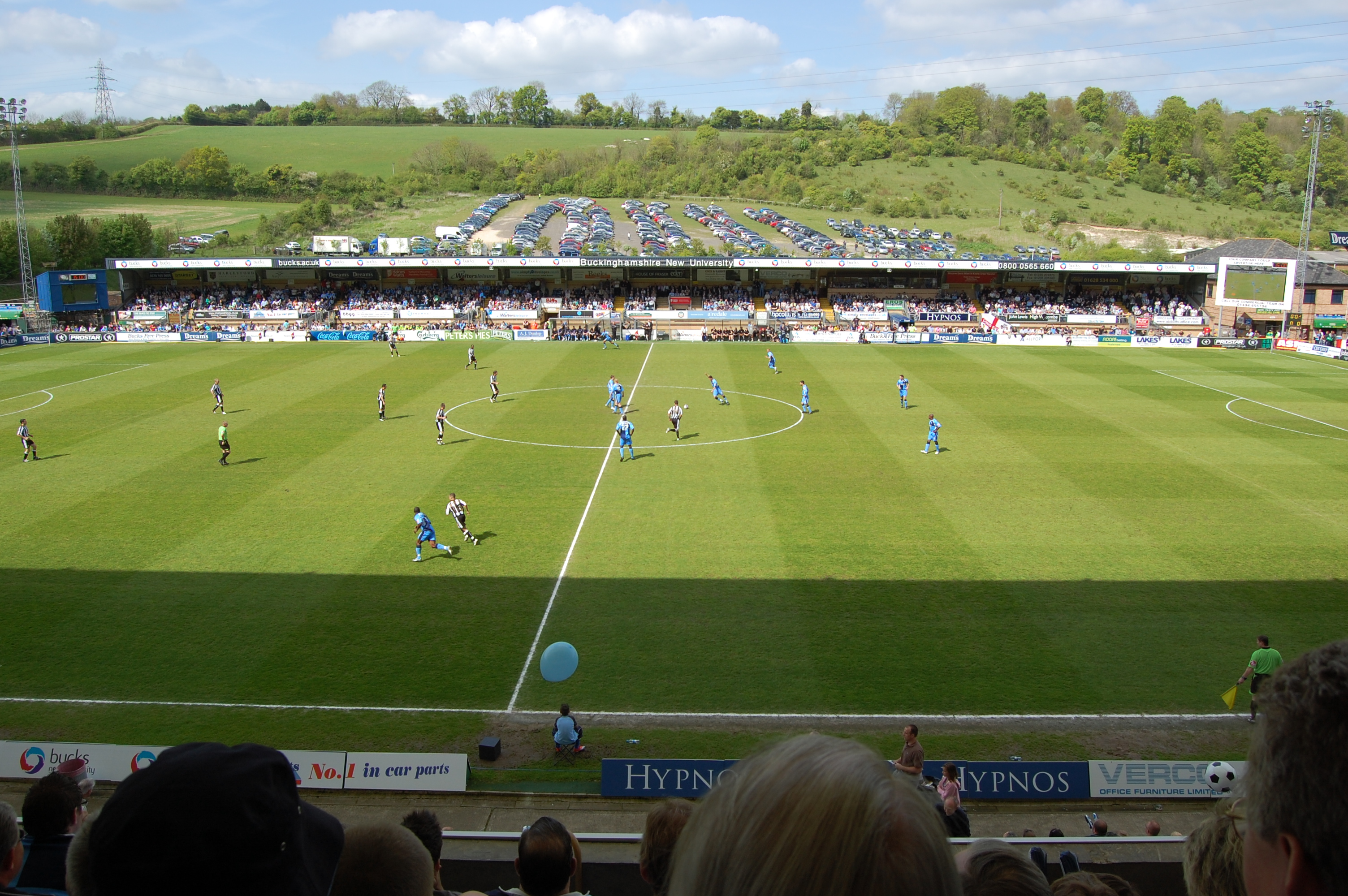 Adams Park in the sunshine - Wycombe Wanderers v Notts County 02/05/2009